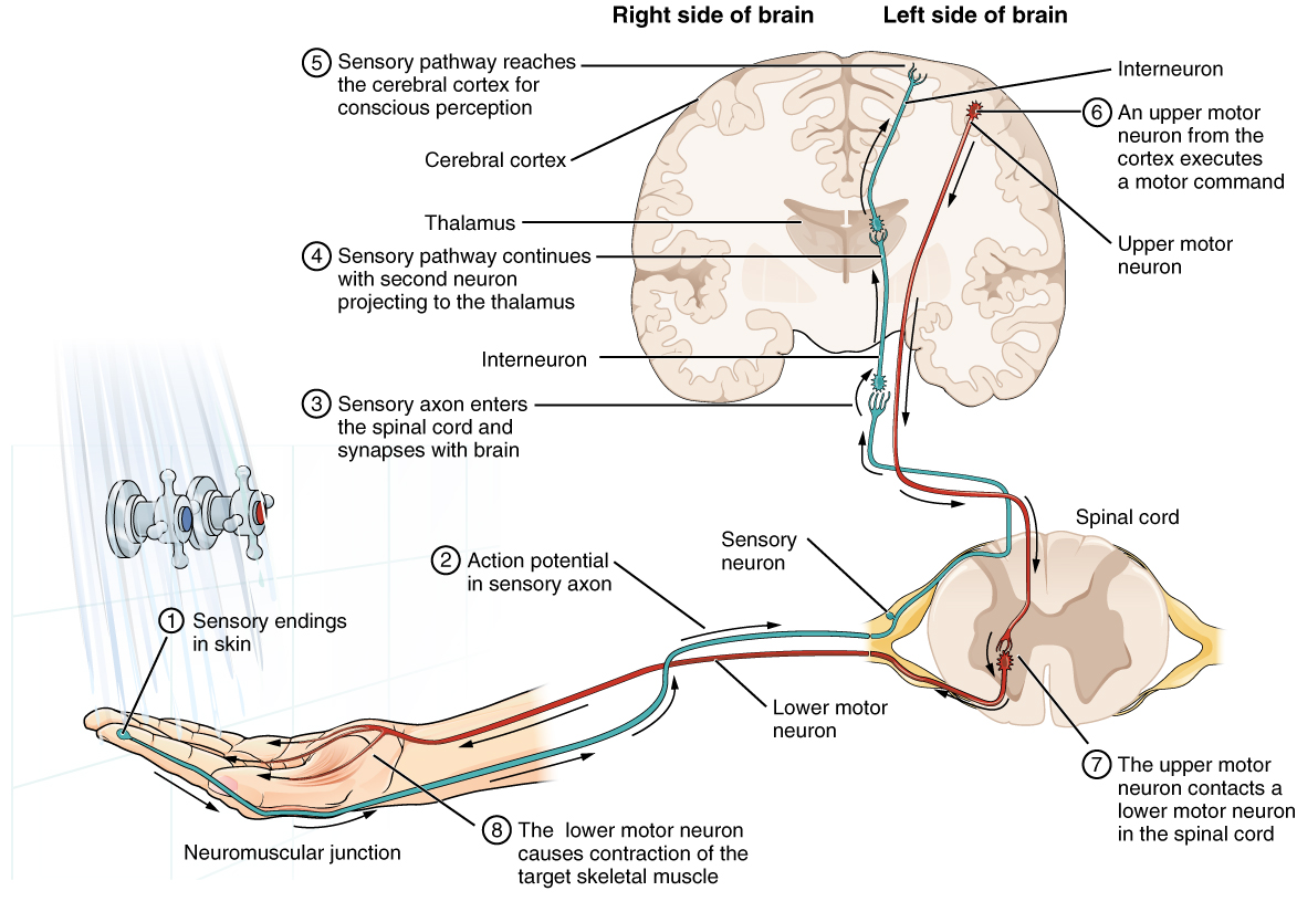 Version 8.25 from the Textbook OpenStax Anatomy and Physiology Published May 18, 2016